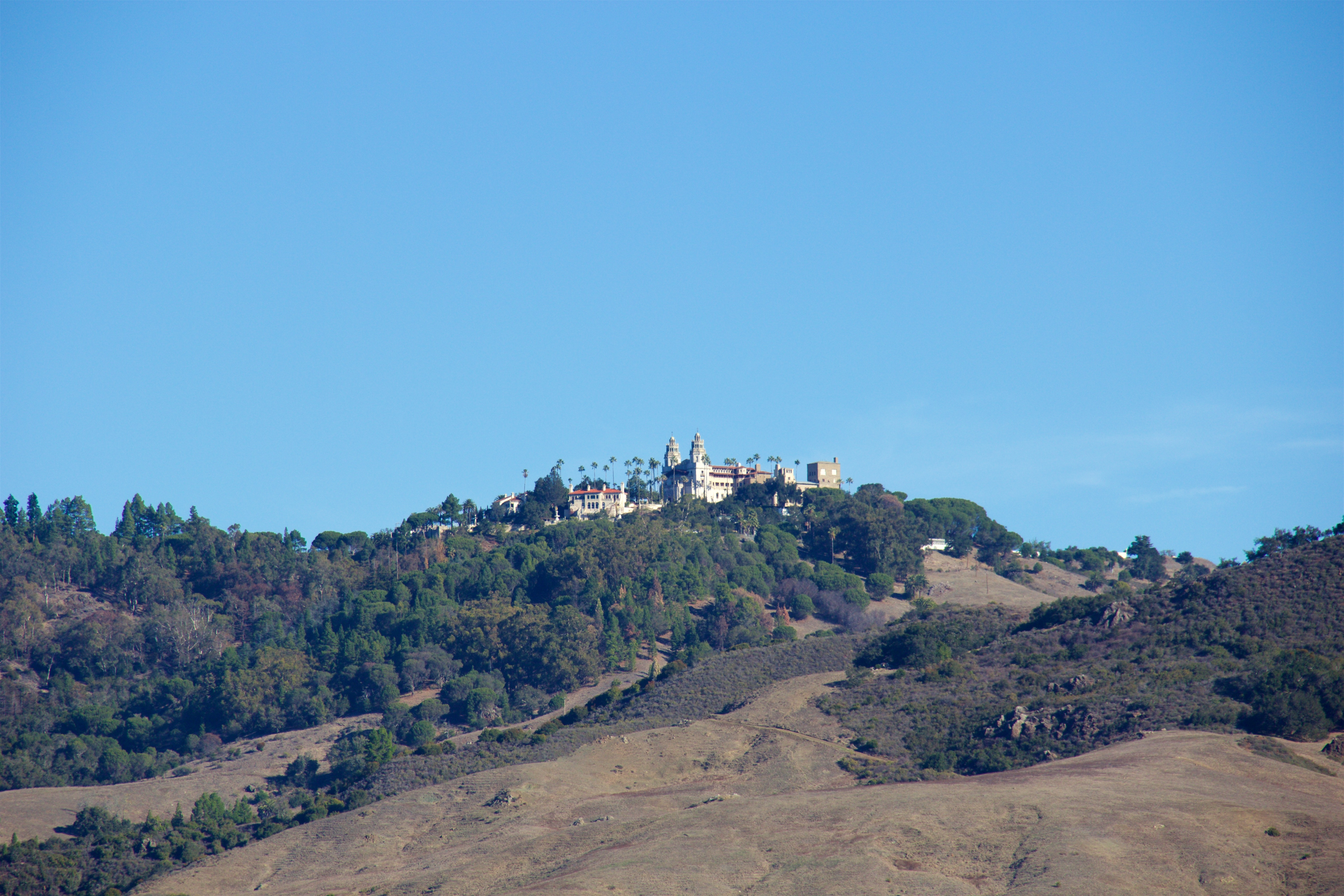 San Simeon, California, USA.